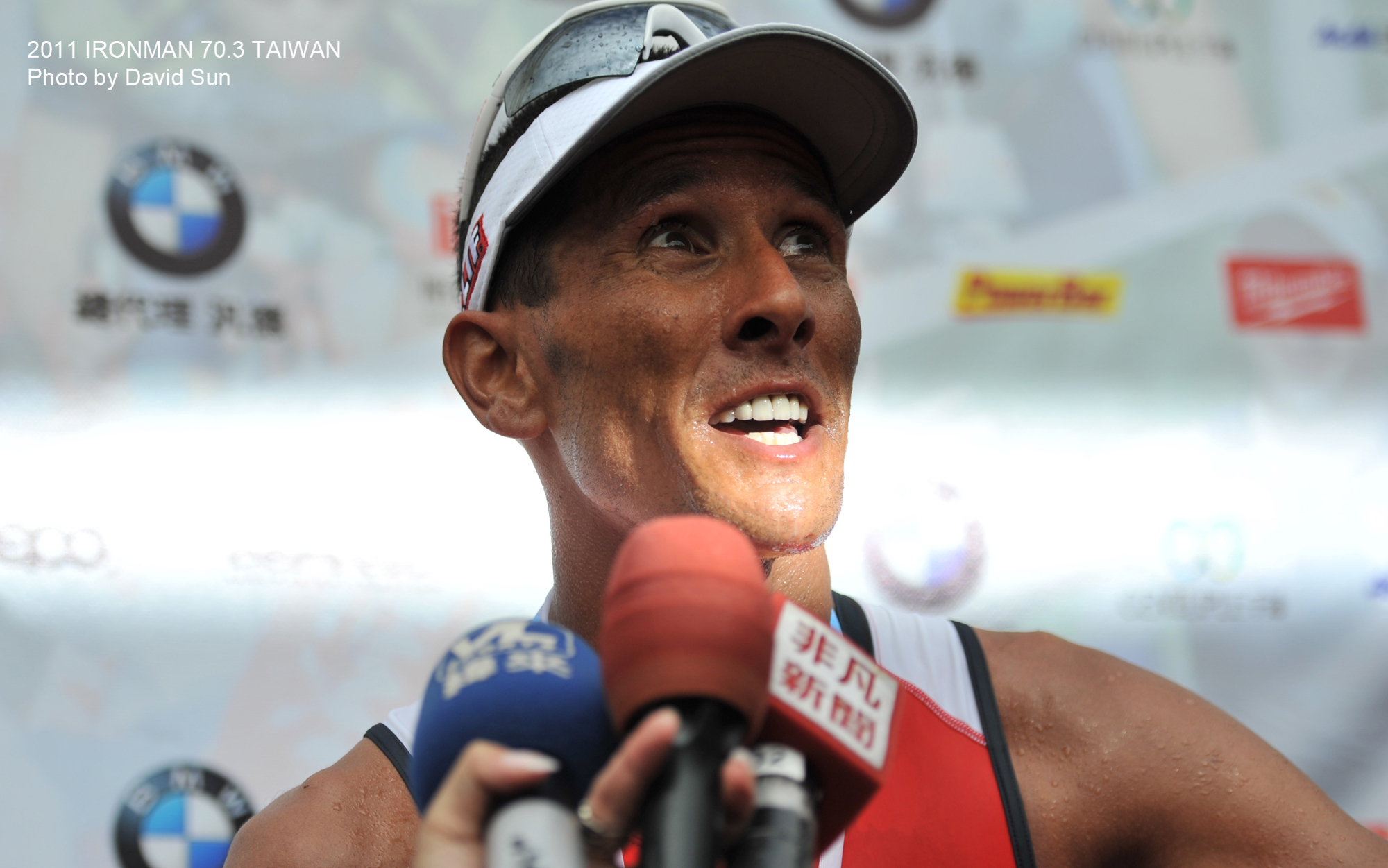 Chris McCormack interviewed als winner of Ironman 70.3 Taiwan 2011